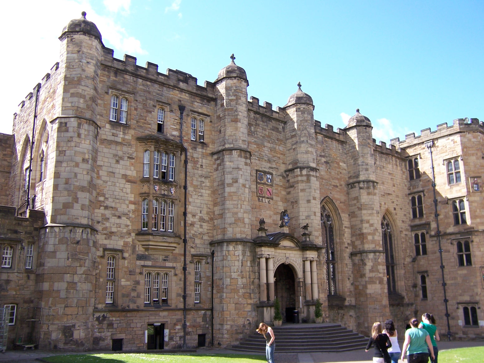 Courtyard of Durham Castle (Durham, England)